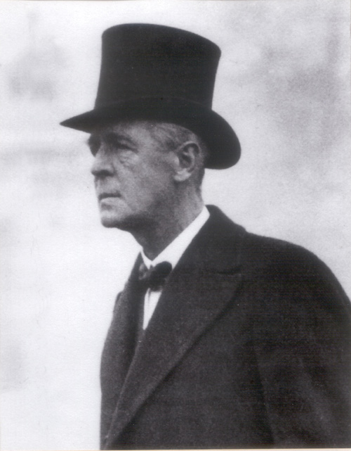 Frederic Thesiger, 1st Viscount Chelmsford (1868-1933)